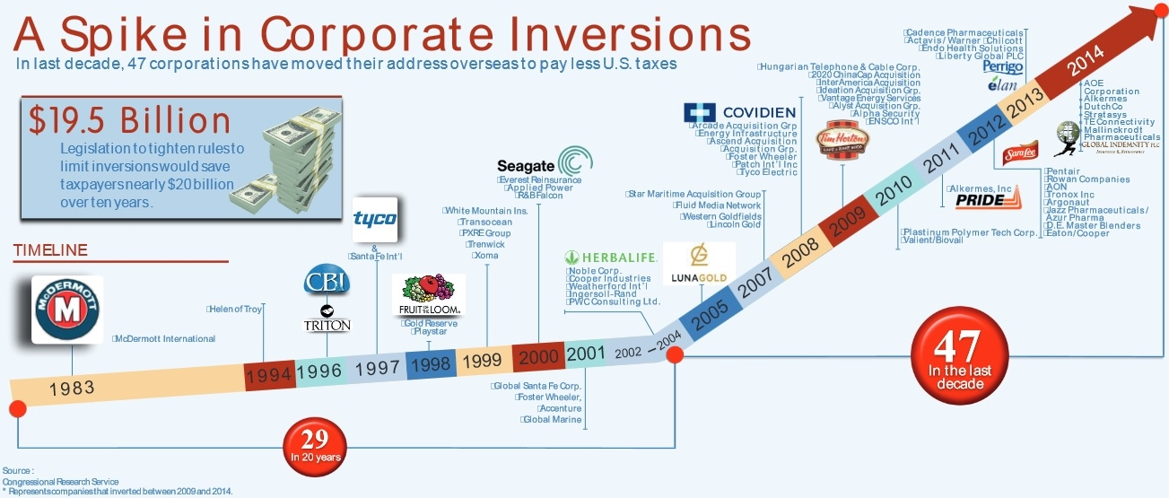 Recreation of a Congressional Research Service graphic showing US corporate tax inversions for phase one (1983 to 2004) and phase two (2004 to 2014)